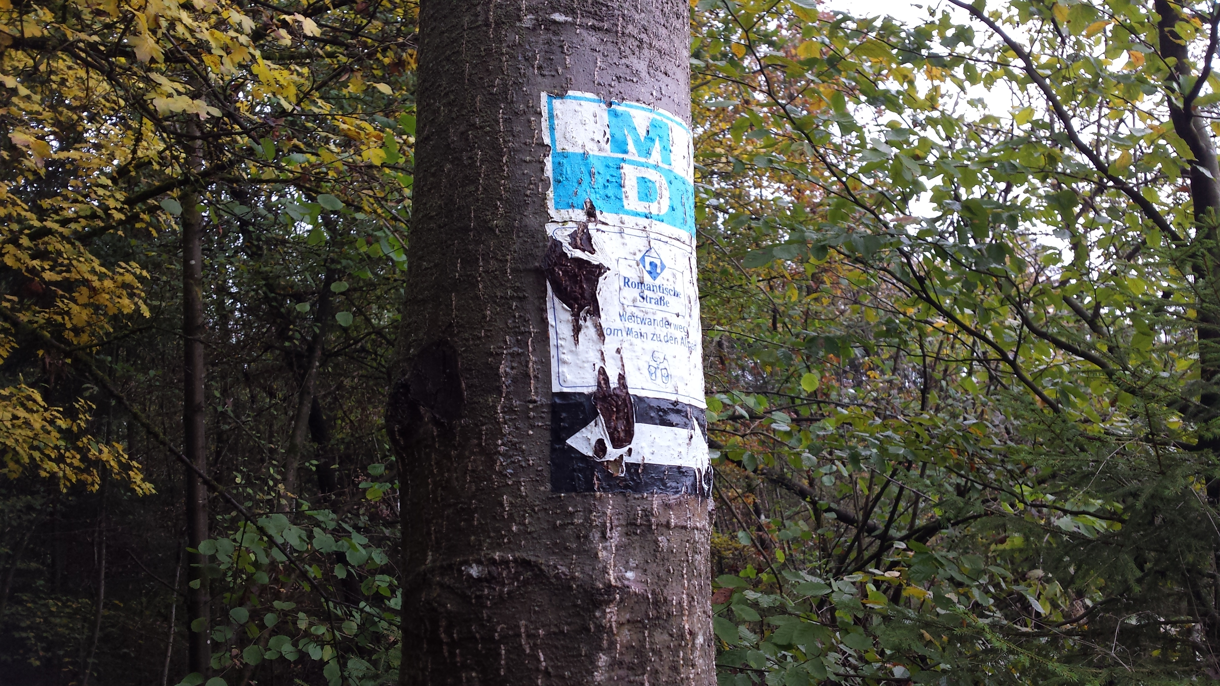 Waymarks of the hiking trails "Main-Donau-Weg" and "Romantische Strasse" near Dinkelsbuehl, Bavaria, Germany